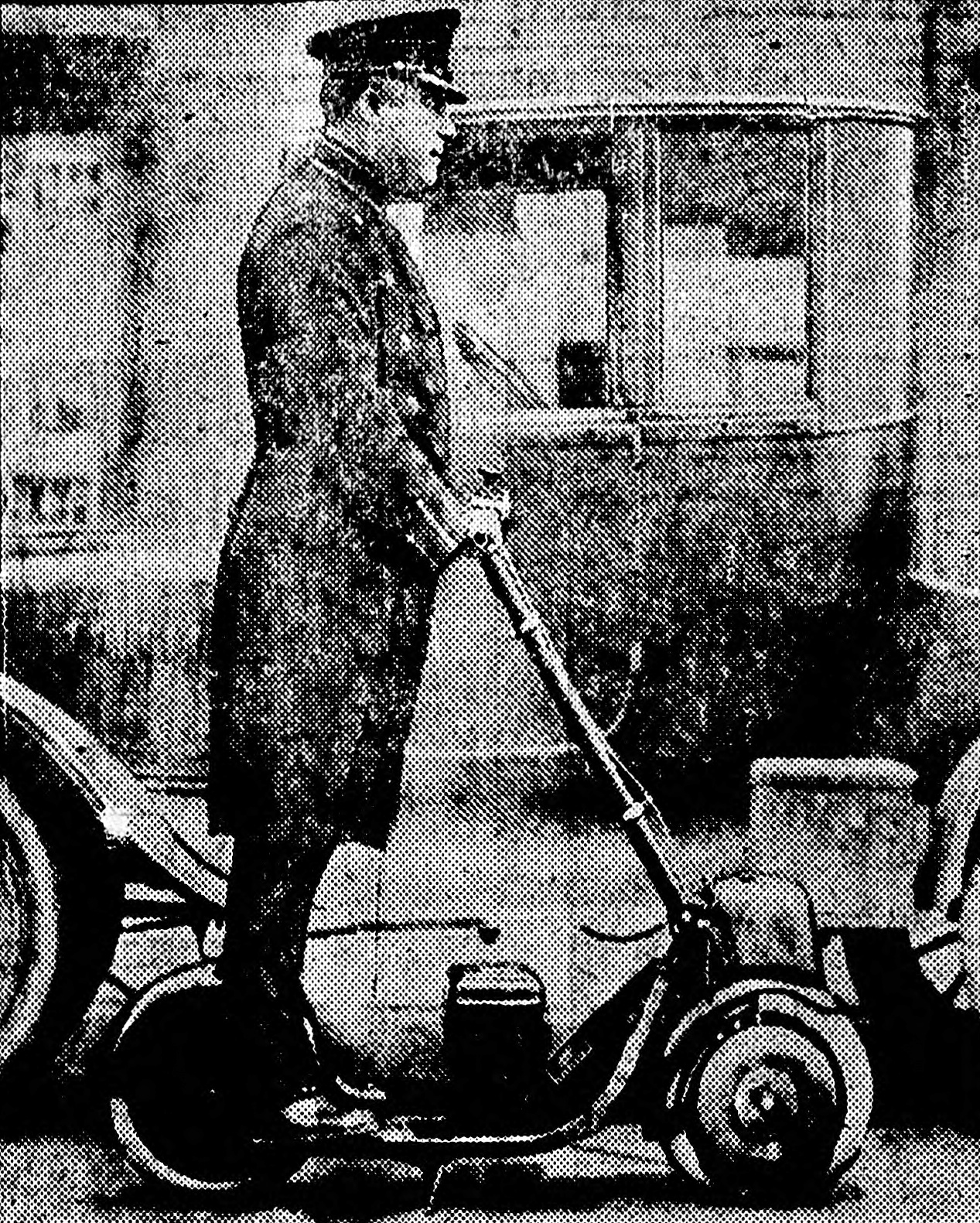 Historical photo of an "autoped" in use. Original caption: Timothy Porter, traffic cop at Newark, N.J.,rides about on an autoped to untangle traffic tie-ups.